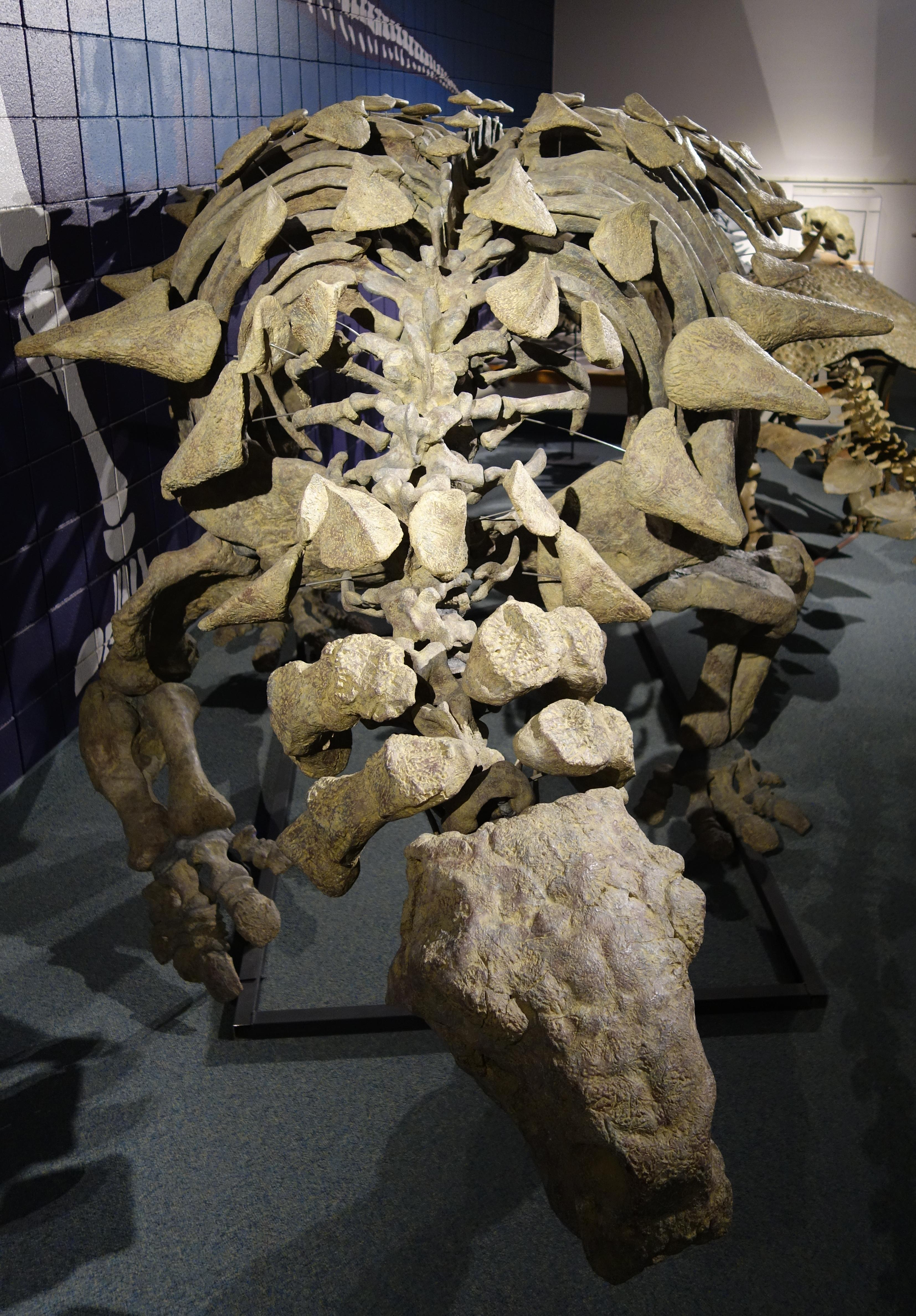 Peloroplites cedrimontanus skeletal mount. On display at the USU Eastern Prehistoric Museum, Price, Utah (US).